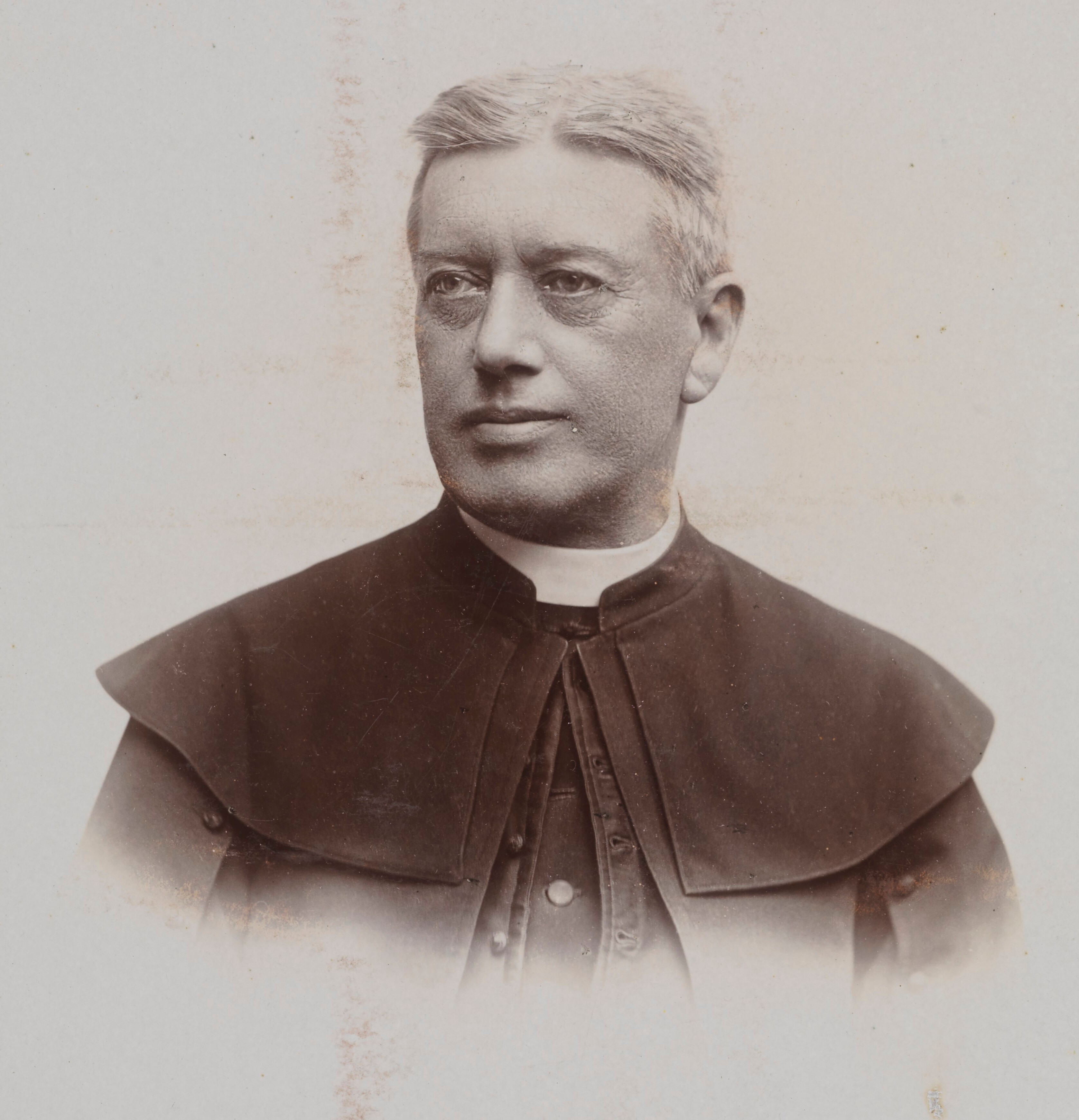 Władysław Fudalewski, ok. 1901 r.